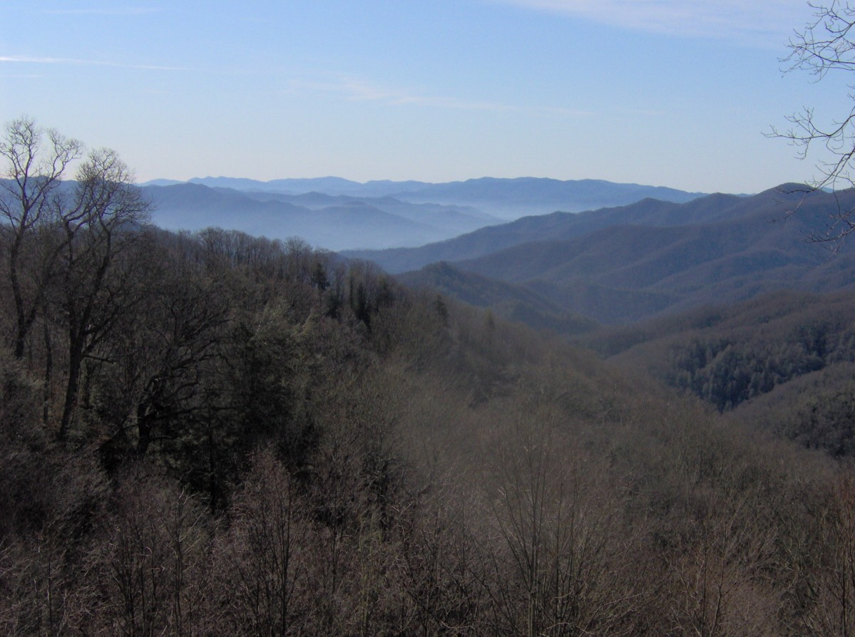 The Deep Creek, part of the Oconaluftee watershed, looking southwest from Newfound Gap in the Great Smoky Mountains.